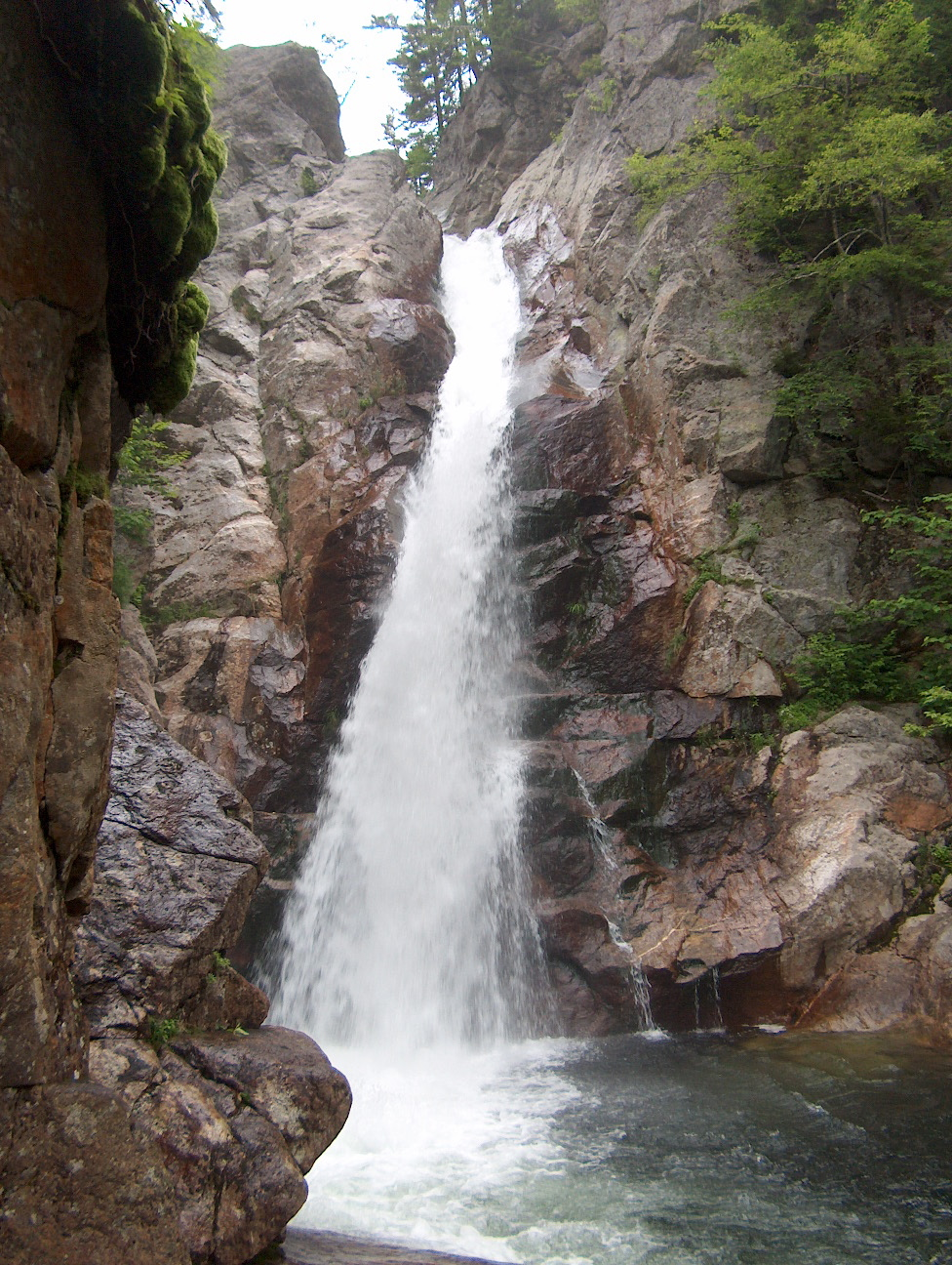 Glen Ellis Falls on the Ellis River in New Hampshire. Photo by Ken Gallager.